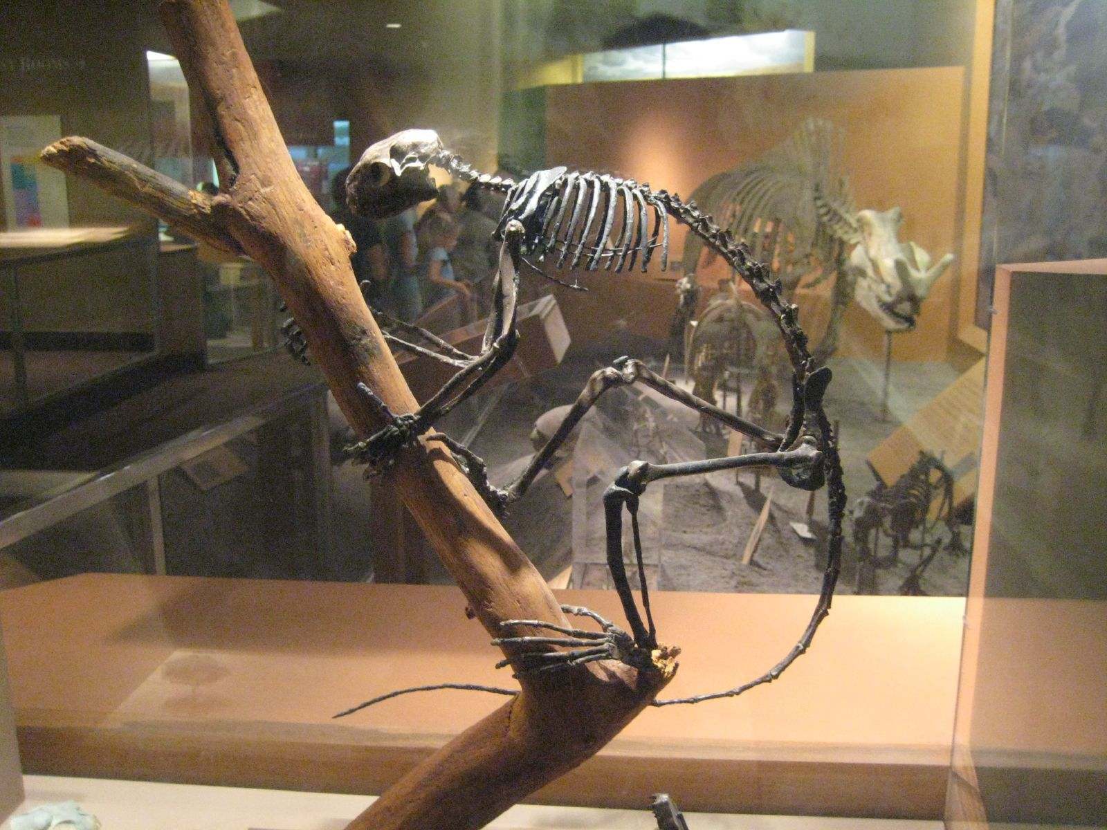 Early Eocene (55-50 mya); Smilodectes gracilis This skeleton is almost complete, and is one of the best specimens of a primate from that time period.